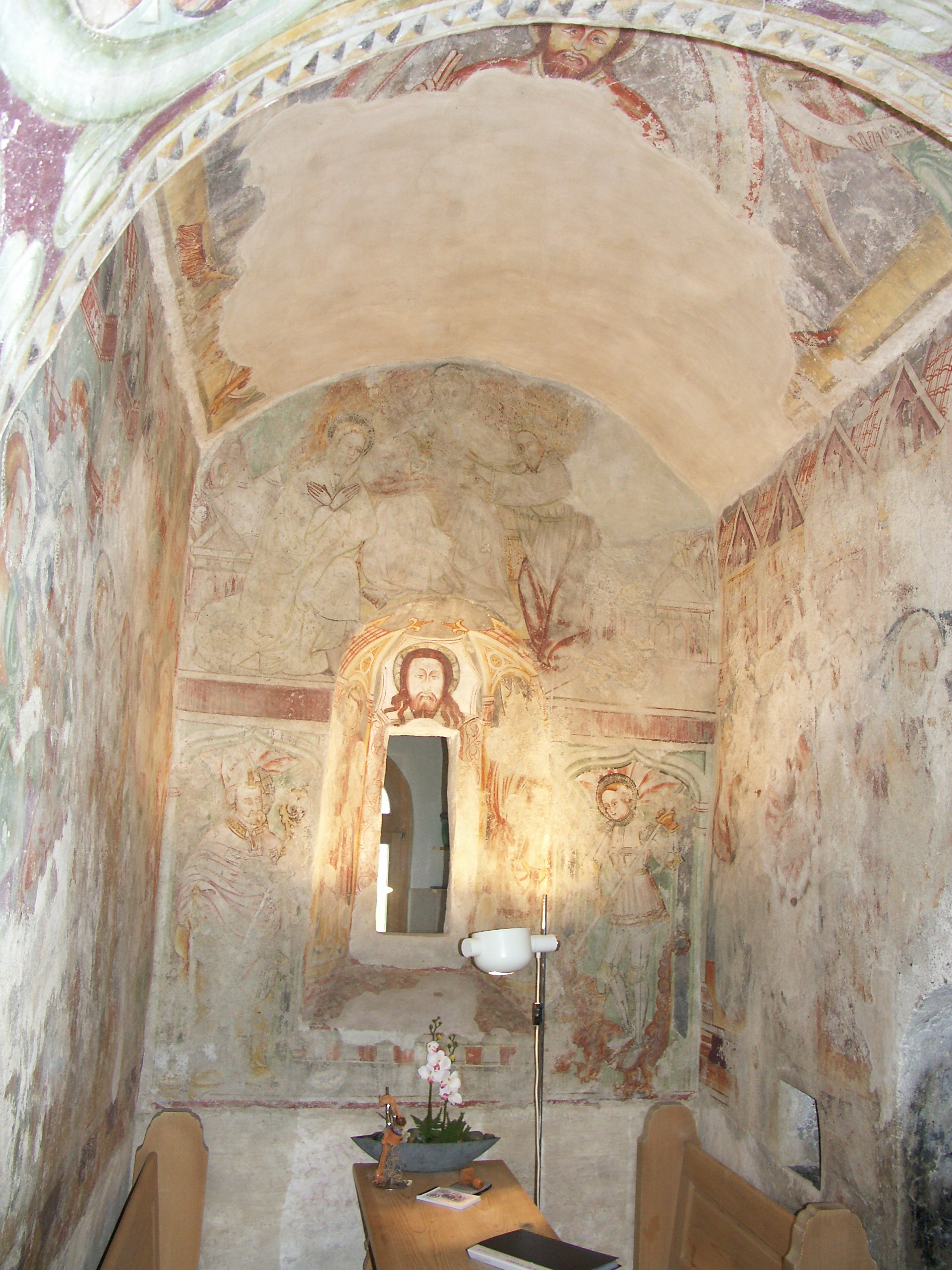 Church of St. Theodul, Davos, Switzerland